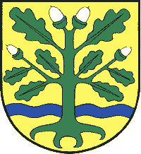 Coat of arms of the municipality Eggebek in Schleswig-Holstein, Germany.